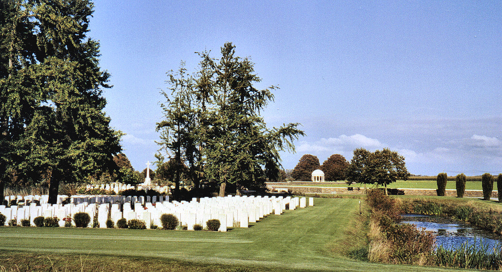 Bedford House cemetery, Belgium